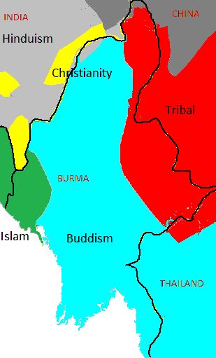 Map of the various religions in Burma. The areas where Buddhism is practised is shown in Blue, Muslim areas are shown as green, Hindu areas shown in light grey and Christianity is shown in yellow.